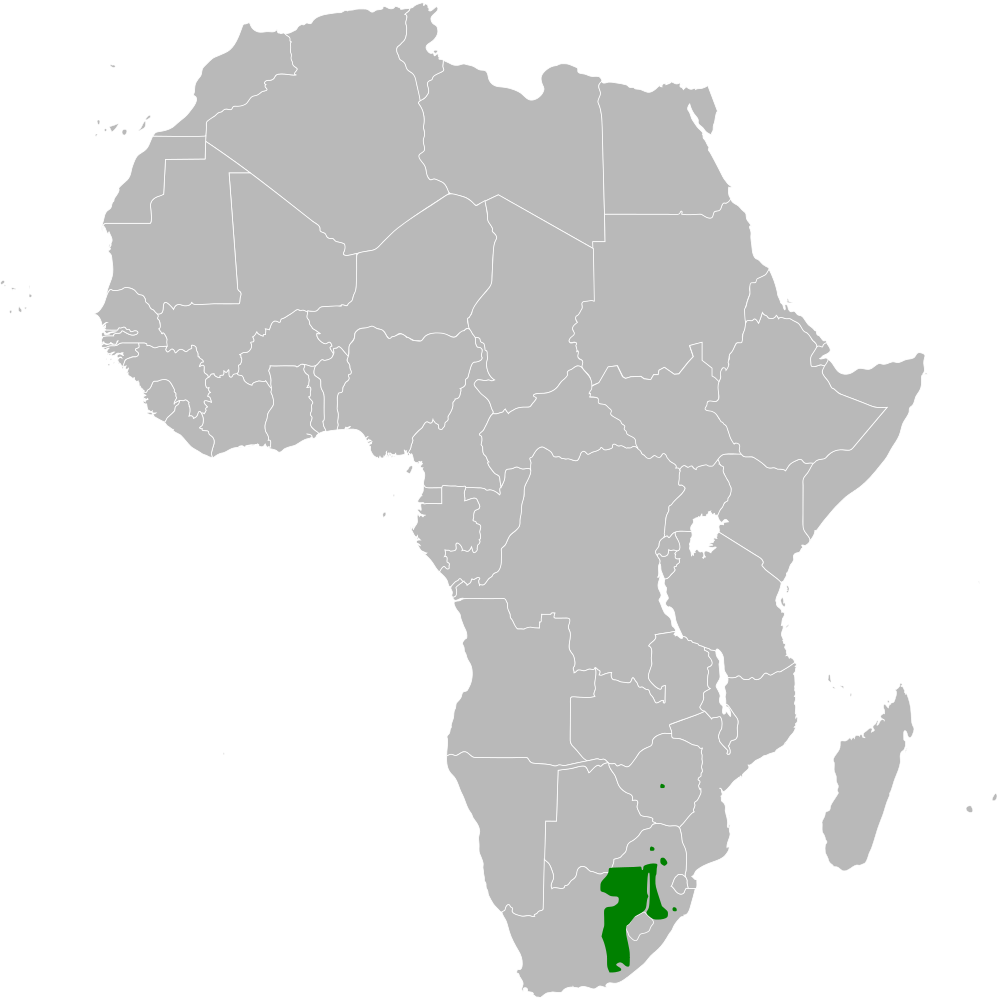 Mirafra cheniana distribution map; using BlankMap-Africa.svg, based on